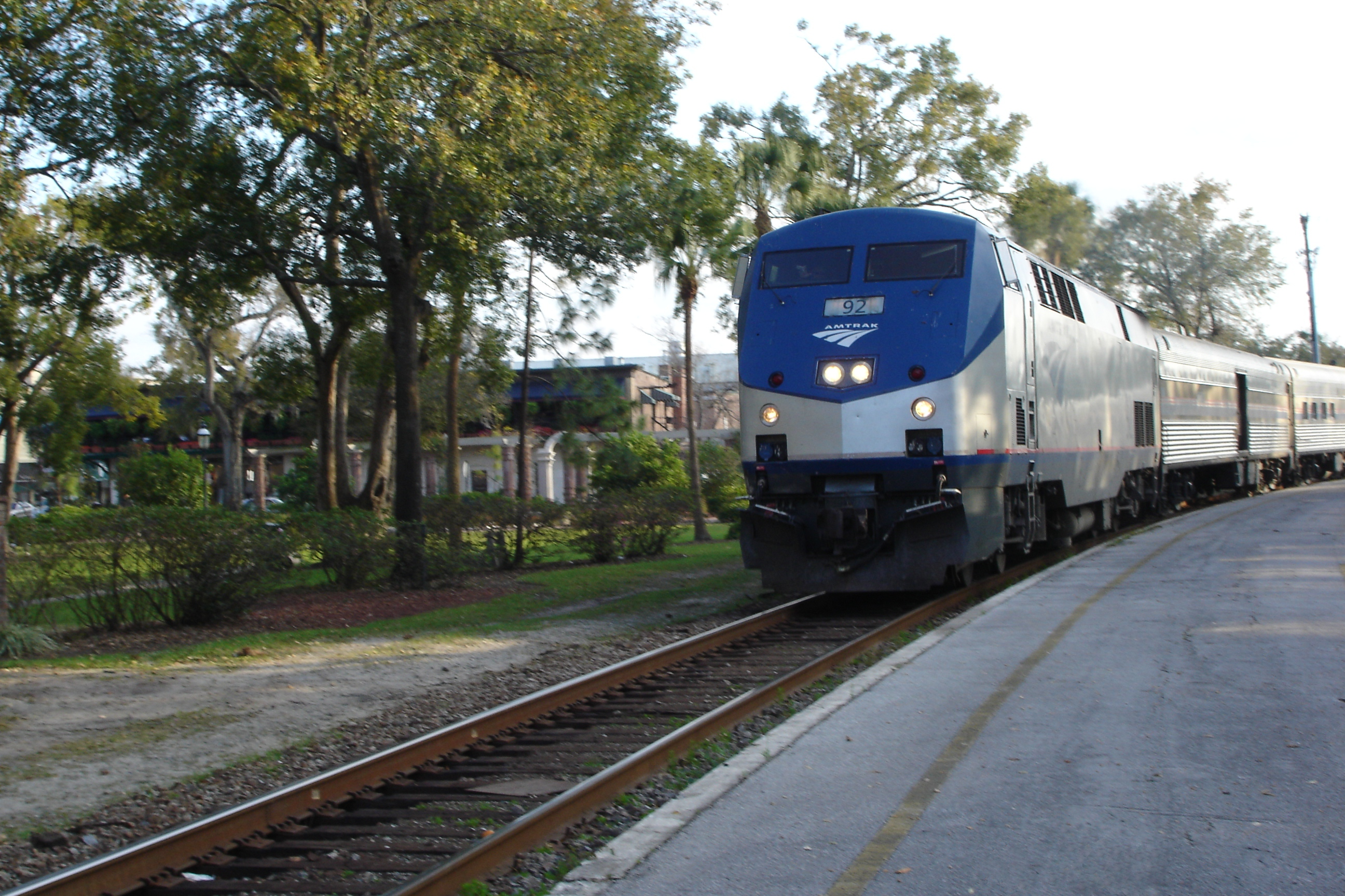 Silver Star arriving at Winter Park Station, FL heading towards New York. Taken by RJ.